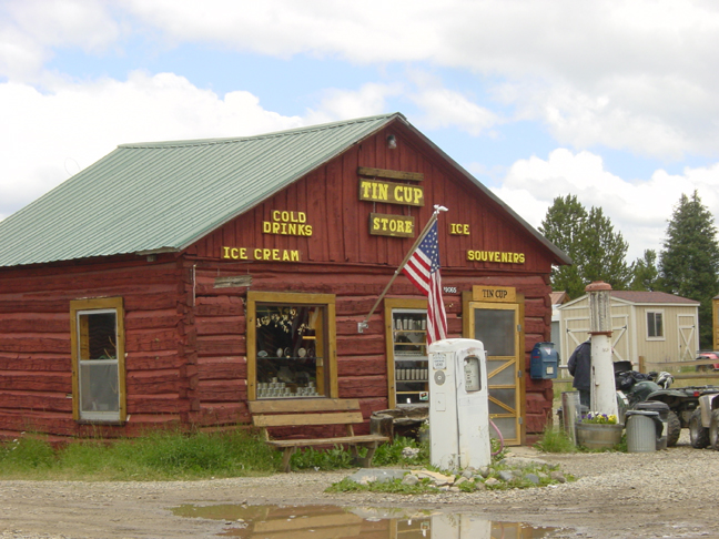 Tincup, Colorado general store [Category:Images of Colorado]